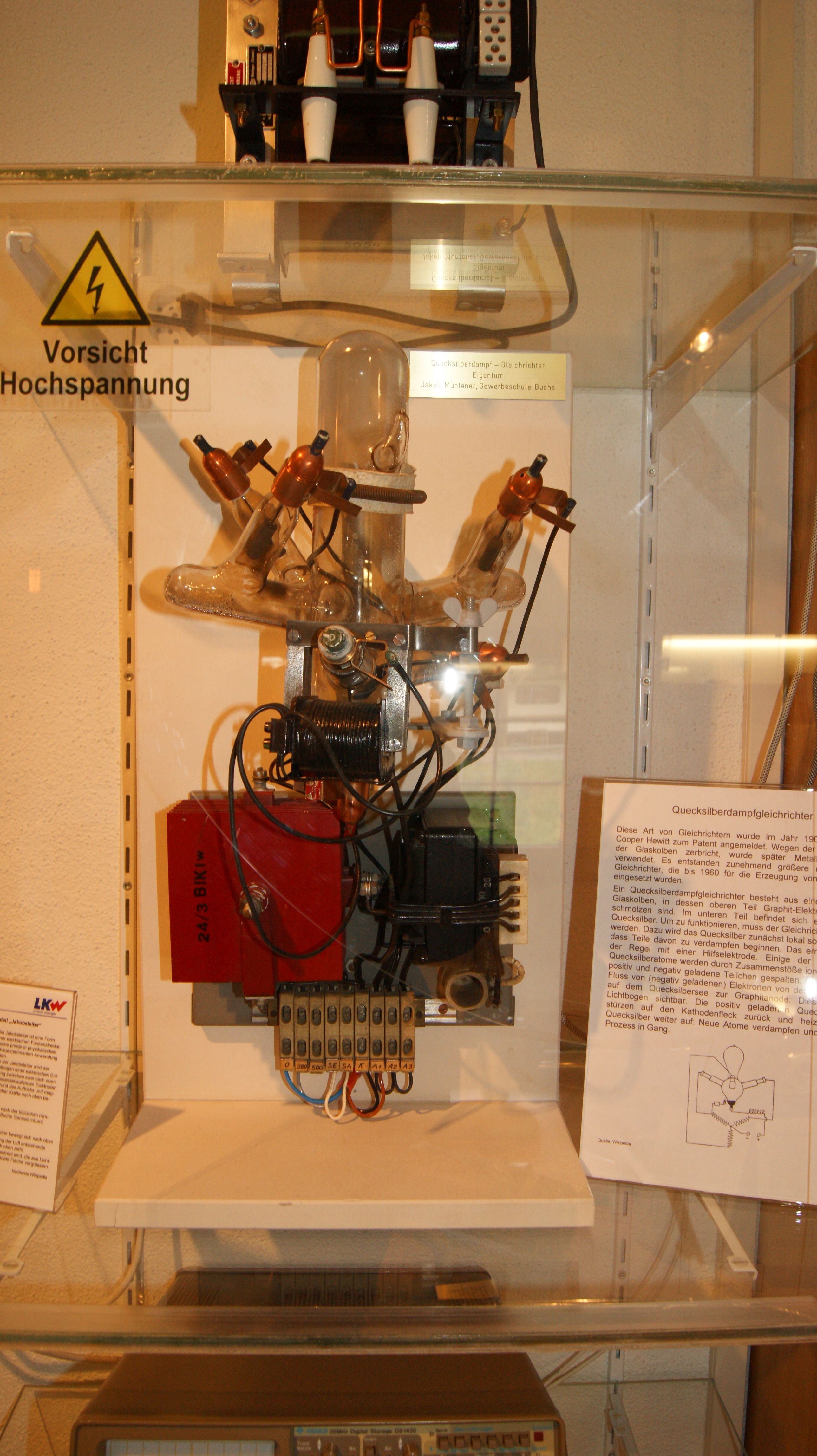 Lawena Museum, Triesen, Principality of Liechtenstein - mercury arc rectifying.